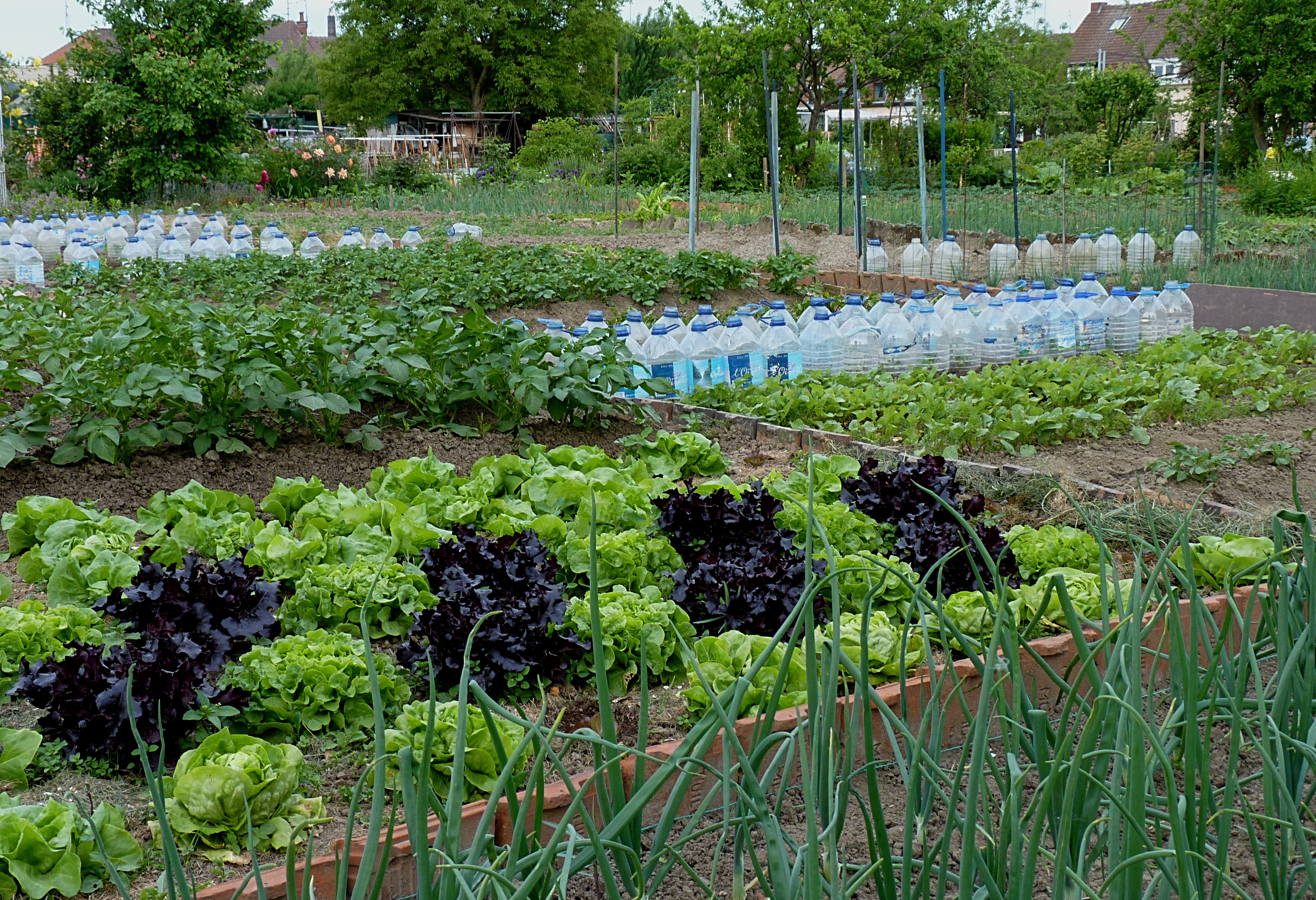 Allotments in Tourcoing (Nord), France.